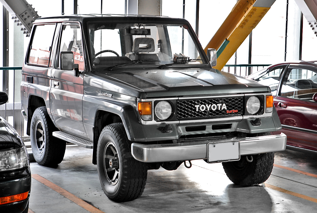 Toyota Land Cruiser 70 Light 2.4 Turbo Diesel ( LJ71G )